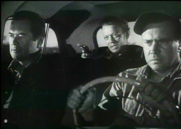 Screen-shot of film: The Hitch-Hiker (1953). Actors: Frank Lovejoy, William Talman, and Edmond O'Brien. The Hitch-Hiker at the Internet Archive